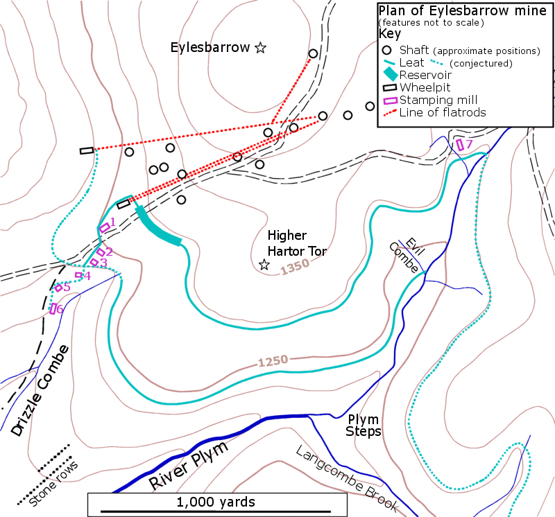 A plan of Eylesbarrow tin mine on Dartmoor, Devon, England.